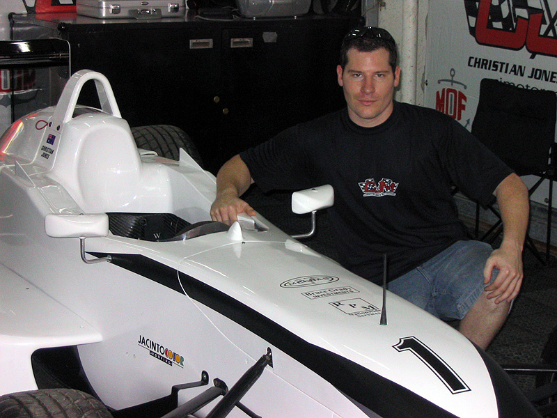 Christian Jones. Racing driver from Australia.